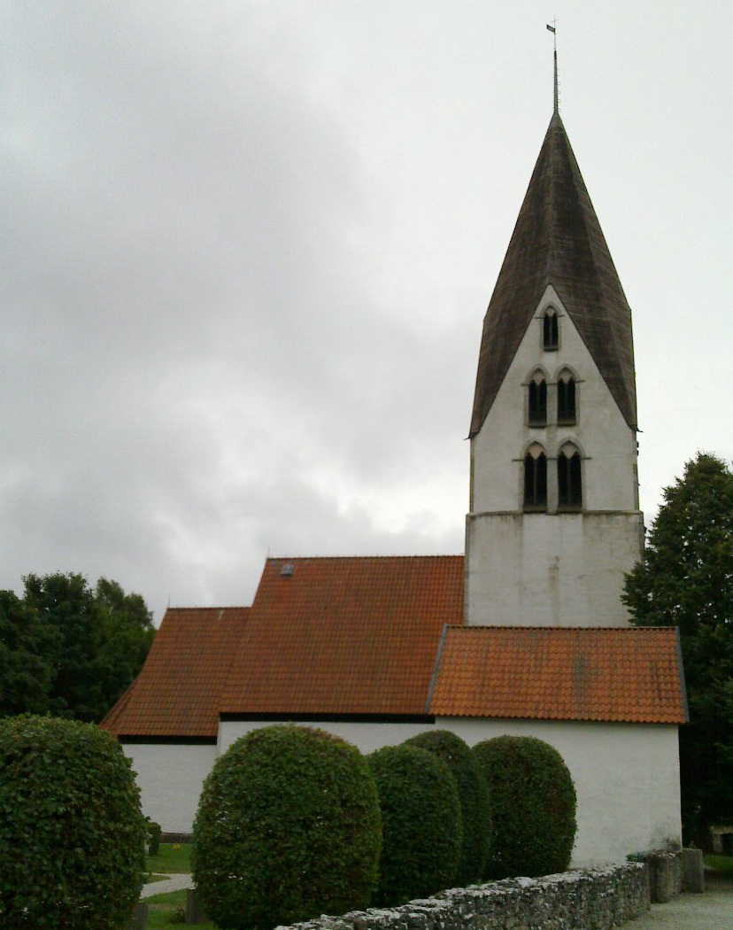 Church of Sproge, Gotland, SE